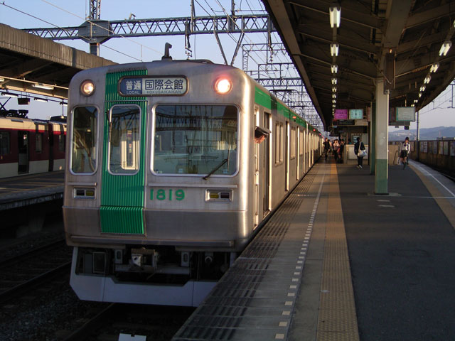 Kyoto City Subway 10 series EMU at Kintetsu Okubo Station